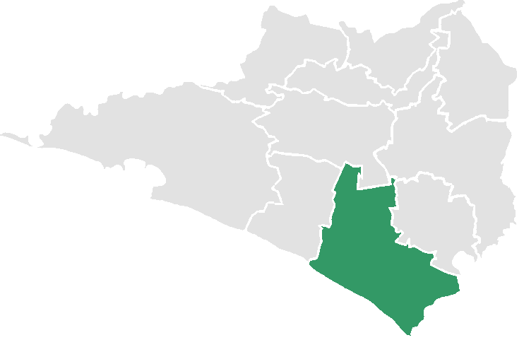 Locator map of Tecomán in Colima